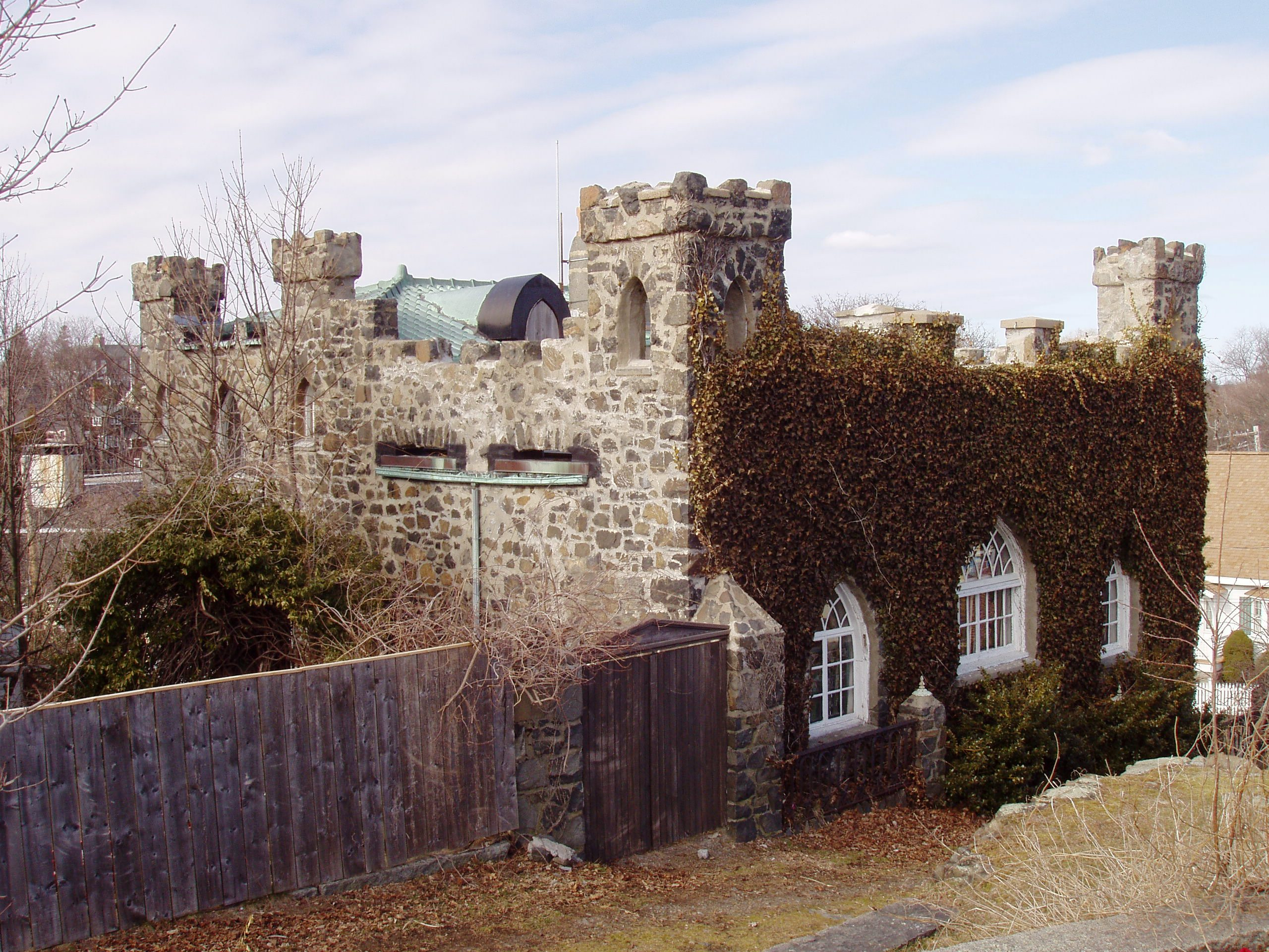 Herreshoff Castle - Marblehead, Massachusetts. Photograph taken by me, March 2006.